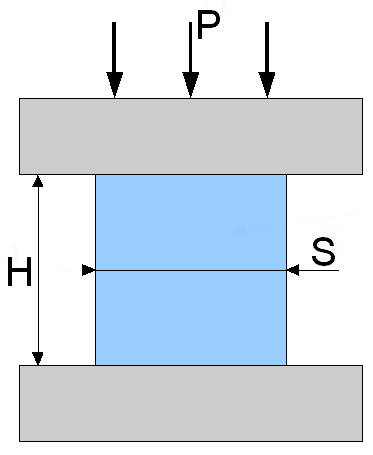 Schematic diagram of a compression specimen placed between the two plates of an universal testing machine. S=section under load. H=height of the specimen under load P. P=load (N).